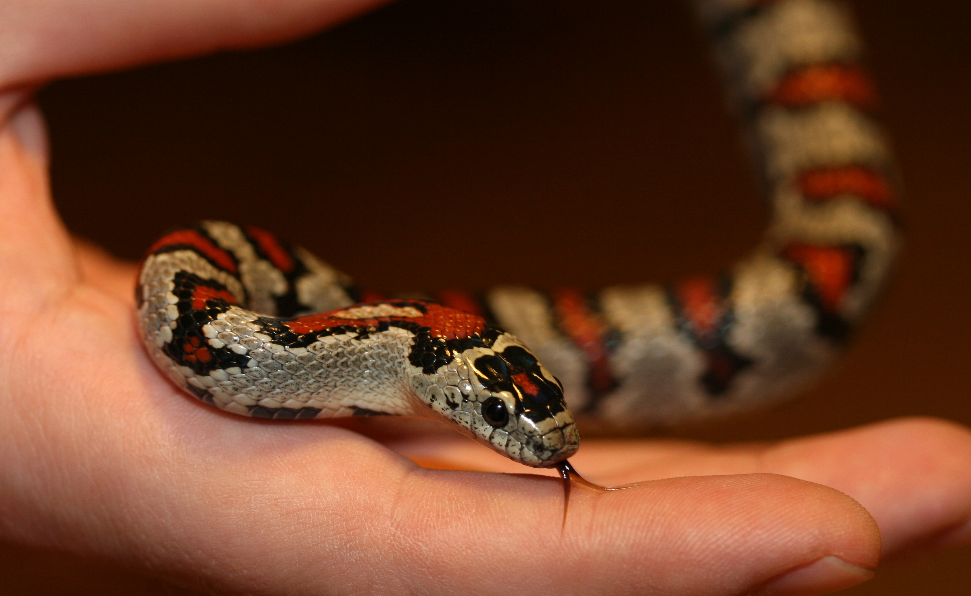 Lampropeltis Mexicana Greeri snake in private collection of Jakub Seif.